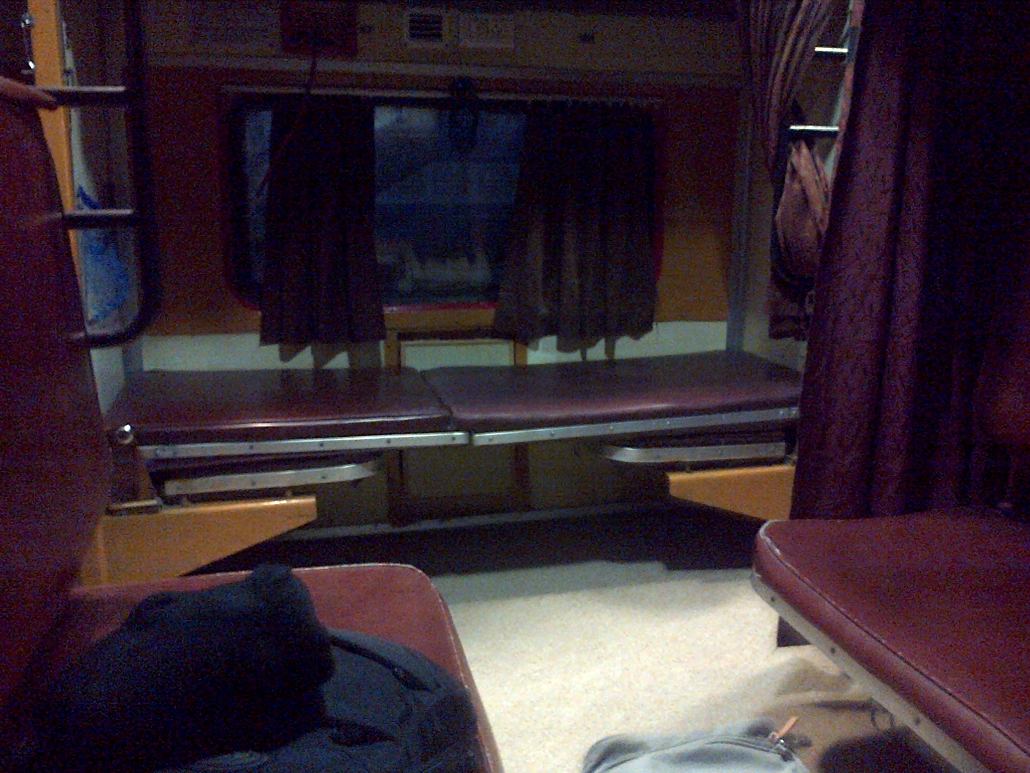 Inside a 3-tier AC Compartment of the Dakshin Express